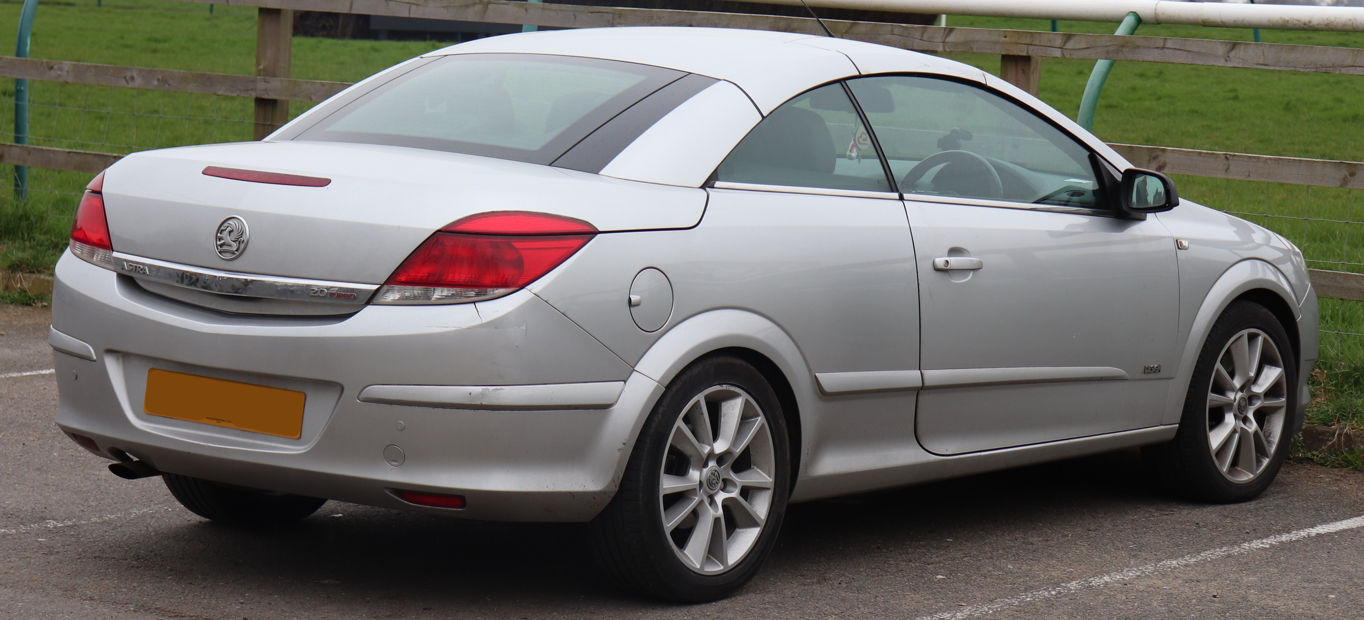 2007 Vauxhall Astra Twin Top Design 2.0 Taken in Warwick